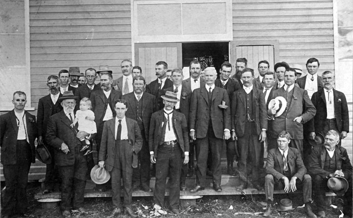 Farmers of Murgon, South Burnett,welcome the Right Honourable Andrew Fisher, Prime Minister. (The photograph caption suggests this welcome was for the 1913 elections [copy print made Nov 1938])